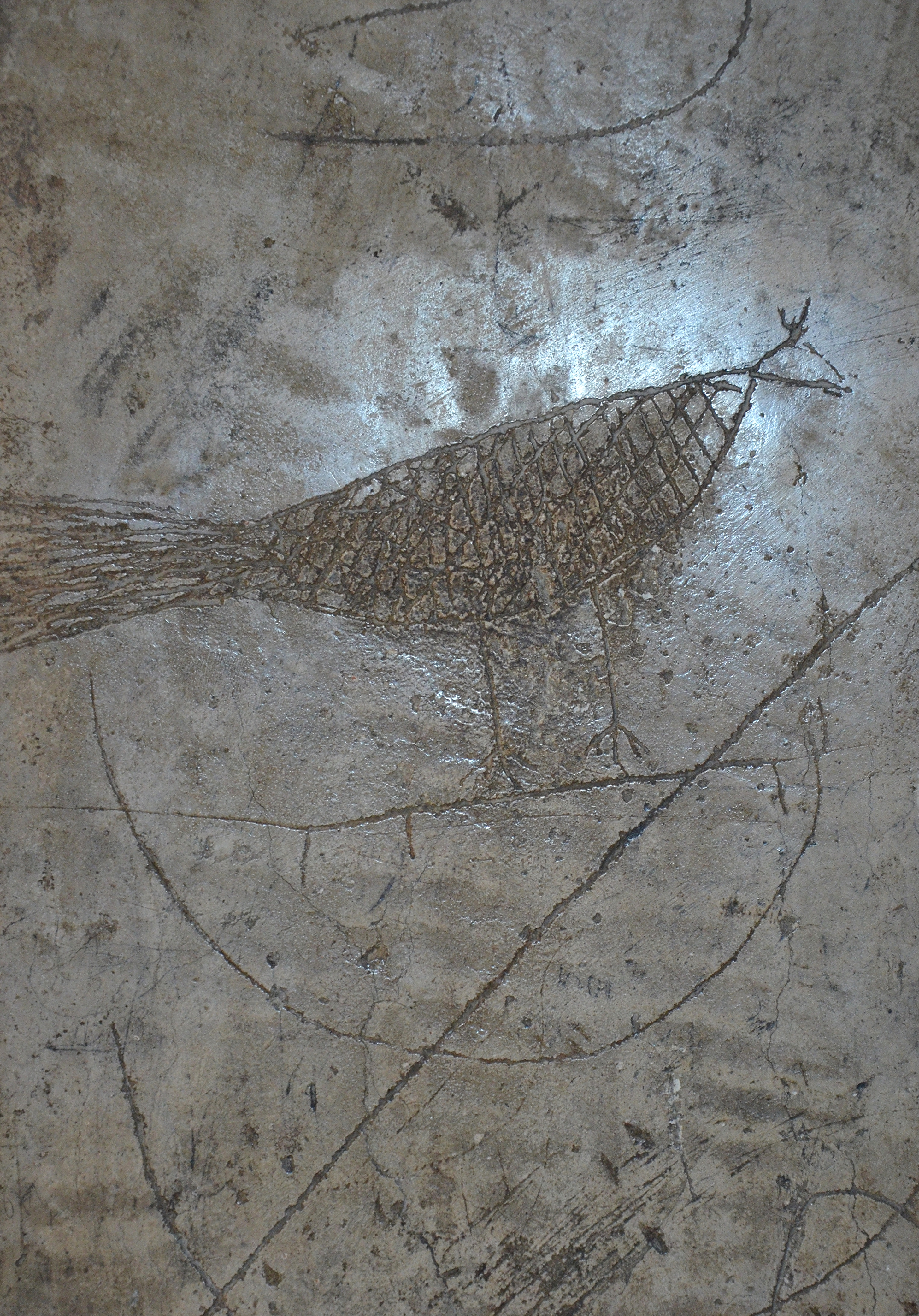 Bird graffito in the Forum Baths, Pompeii